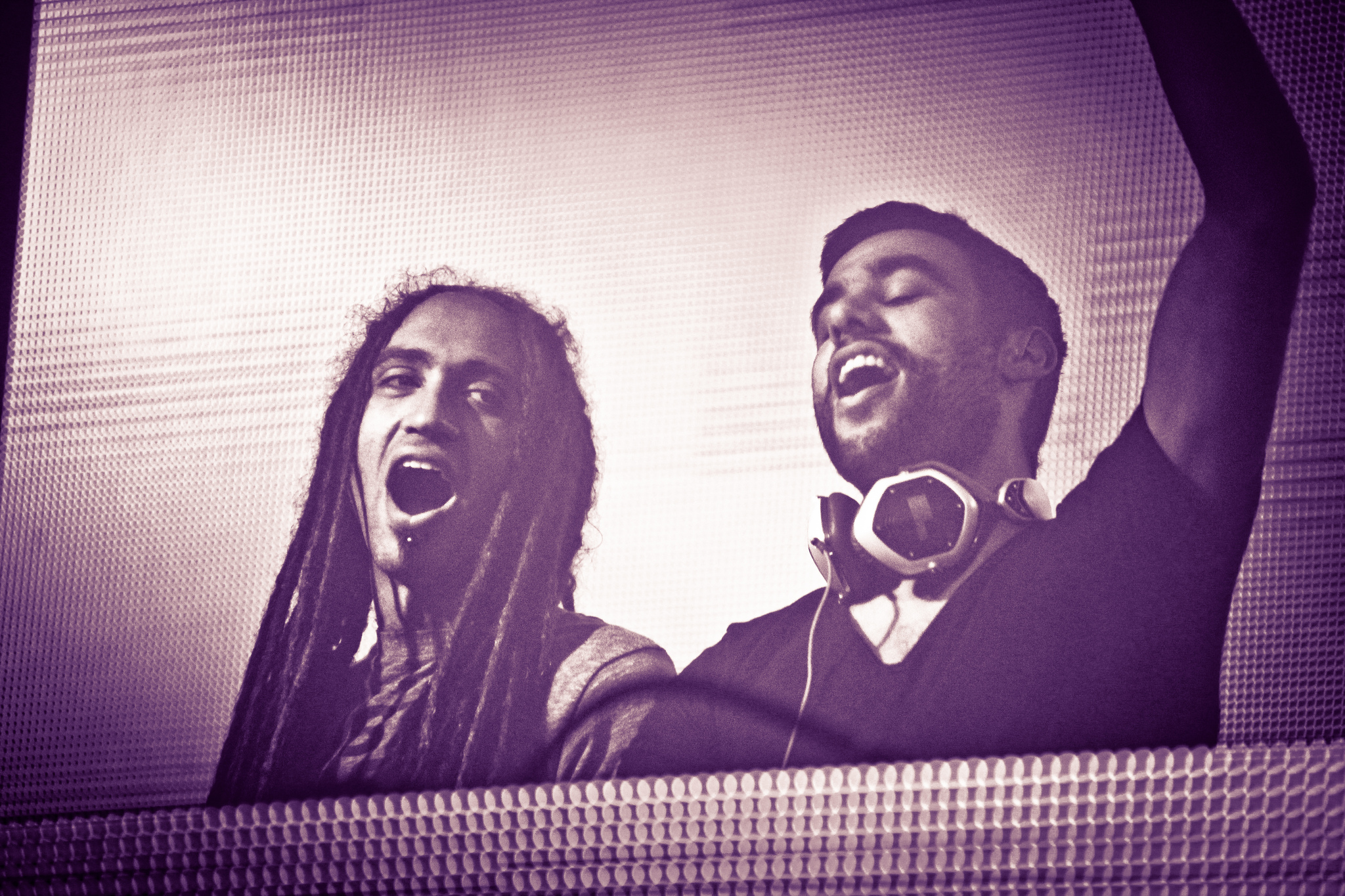 Sultan & Ned Shepard perform at the 2012 Tent Party in London, Ontario. Photo by Shawn Tron